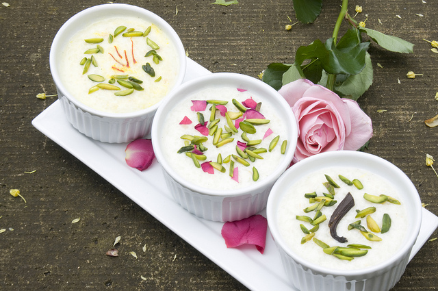 Kheer s special food related sweet type. It is most favorite food at festival times